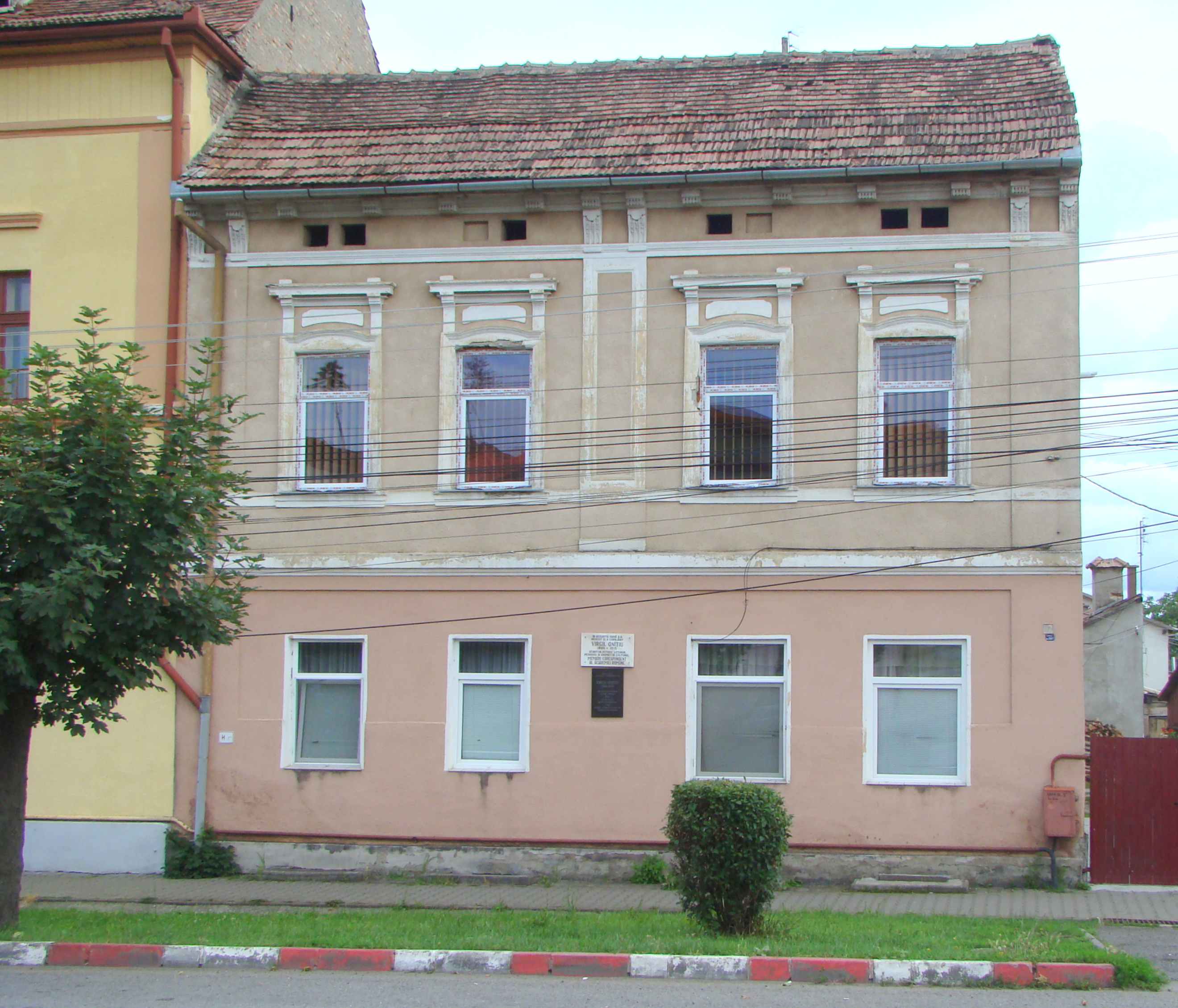 House, historic monument, in Reghin, Mihai Viteazu street, nr.87